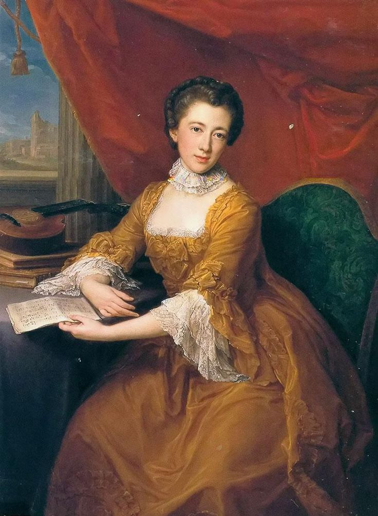 Lady Margaret Georgiana Poyntz (1737−1814), later Margaret Georgiana Spencer, Countess Spencer